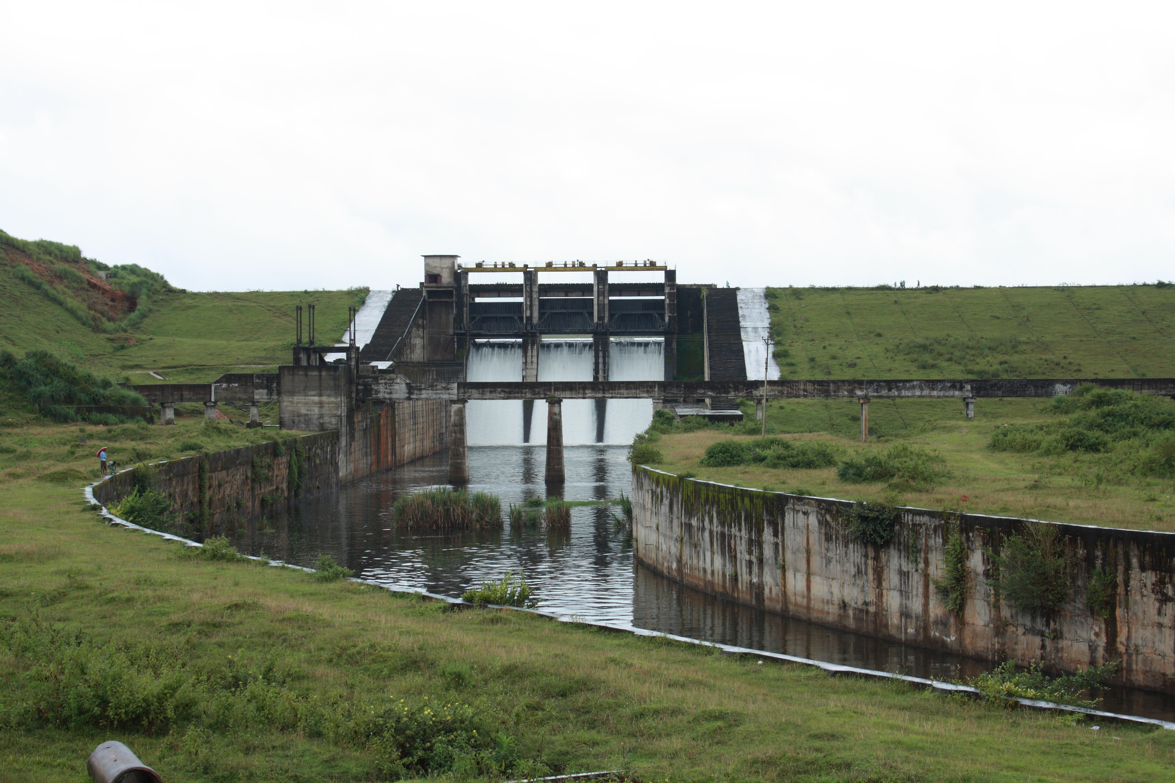 Karappuzha Dam, near Waynad, Kerala, India